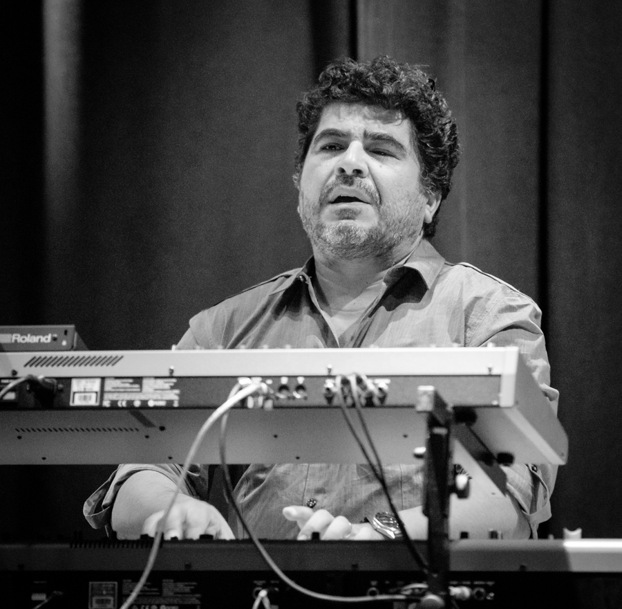 Otmaro Ruiz with Simon Phillips at the stage at Cosmopolite in Soria Moria. The concert took place on 16. November 2017 in Oslo as part of Cosmopolite's 25 year jubilee week. Lineup: Simon Phillips (drums), Greg Howe (guitar), Ernest Tibbs (bass guitar) and Otmaro Ruiz (keyboard).